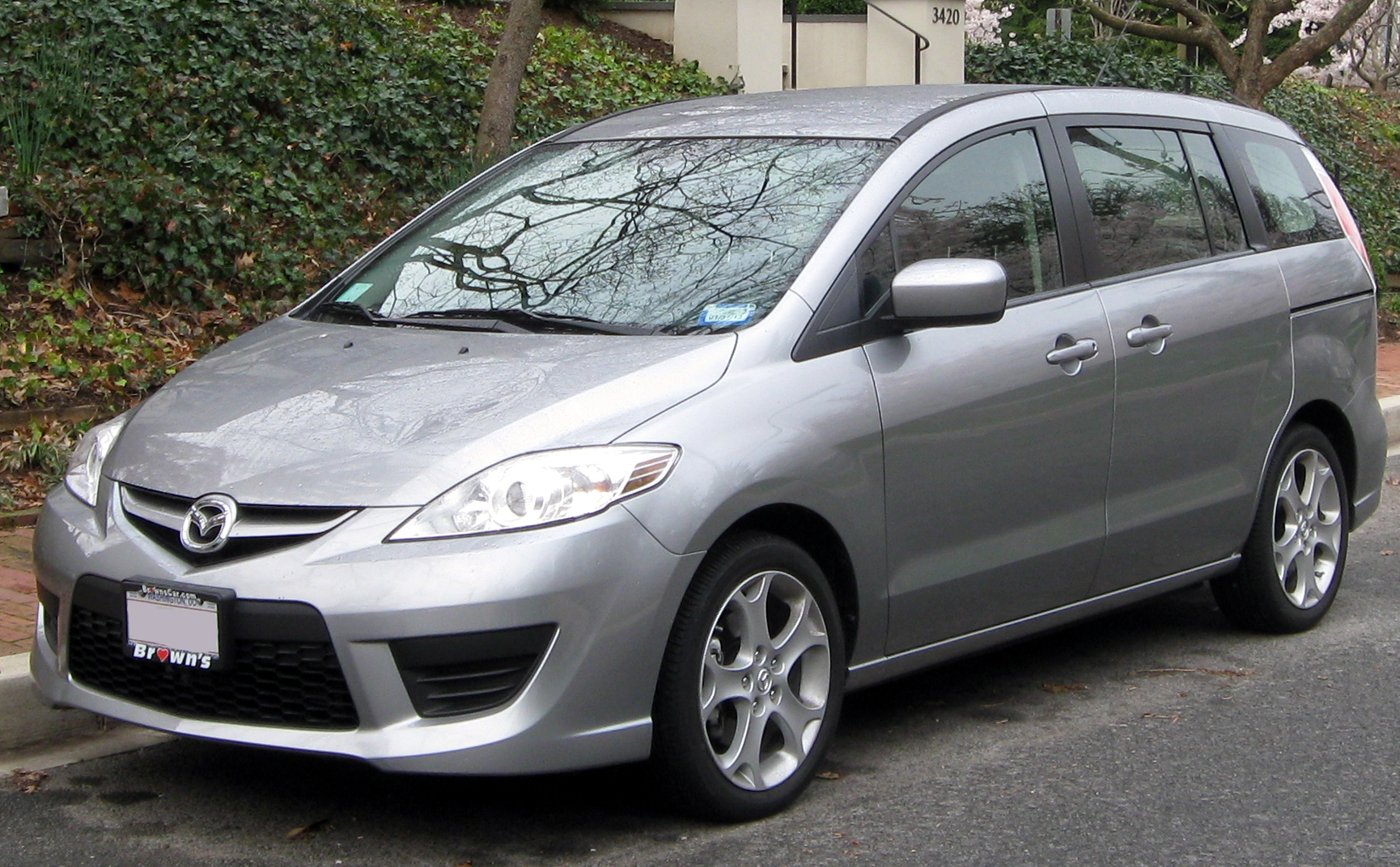 2008-2010 Mazda5 photographed in Washington, D.C., USA.